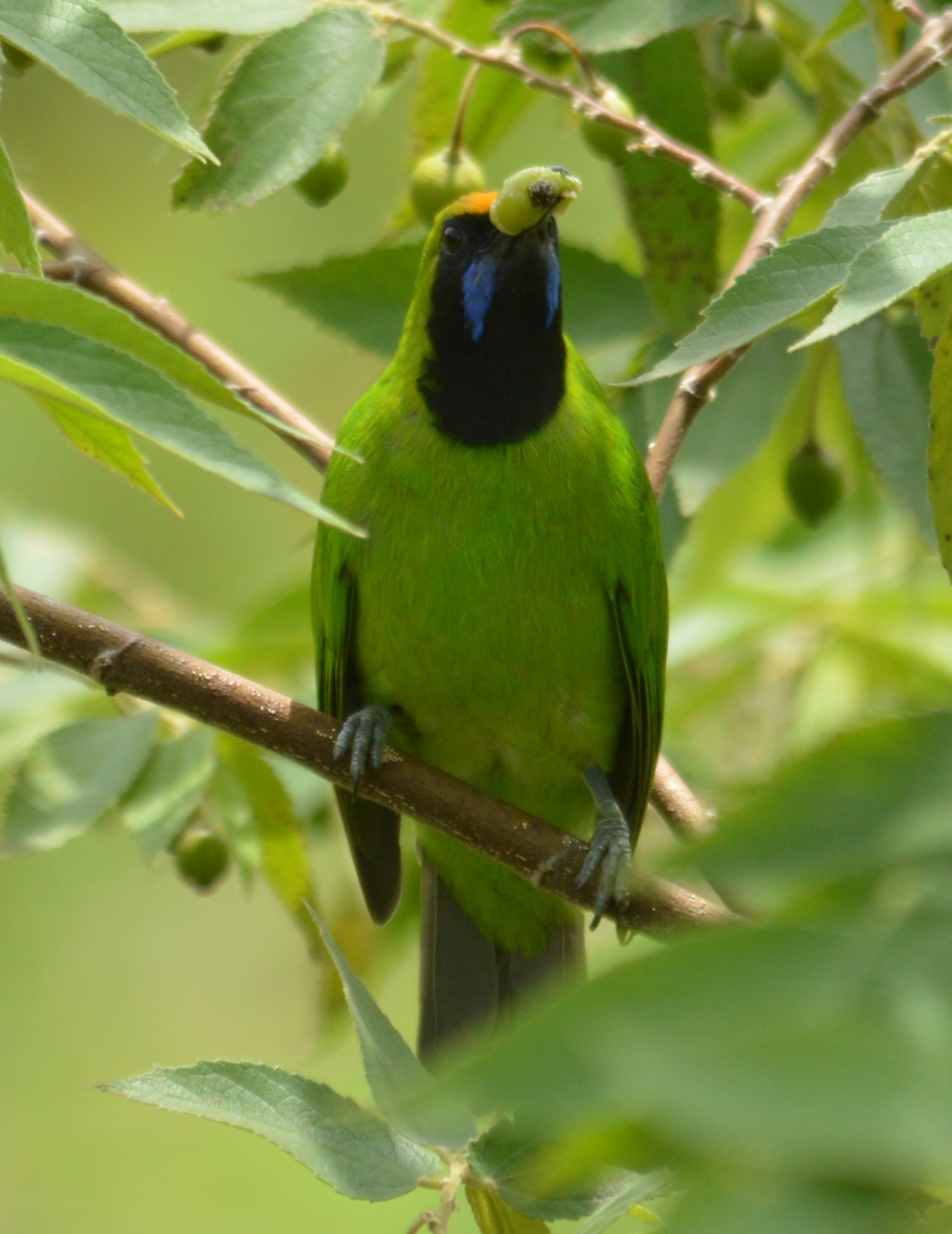 A Golden-fronted Leafbird Chloropsis aurifrons eating fruit in Nagarhole NP in India